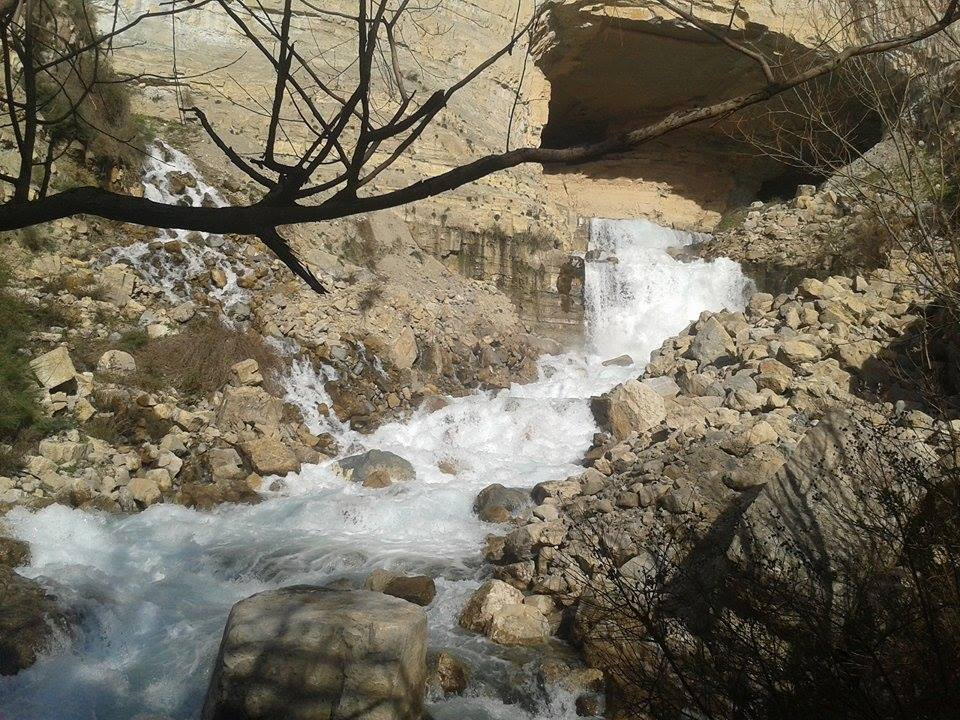 مغارة افقا شتاء 2015.